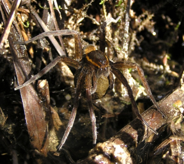 A female Great raft spider (Dolomedes plantarius) with egg sack, at Redgrave and Lopham Fen.